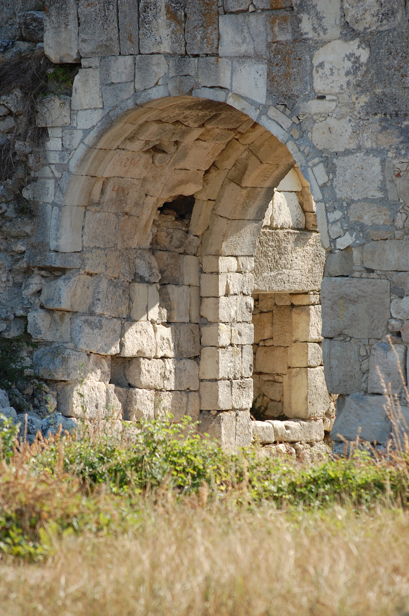 Mangup castle ruins